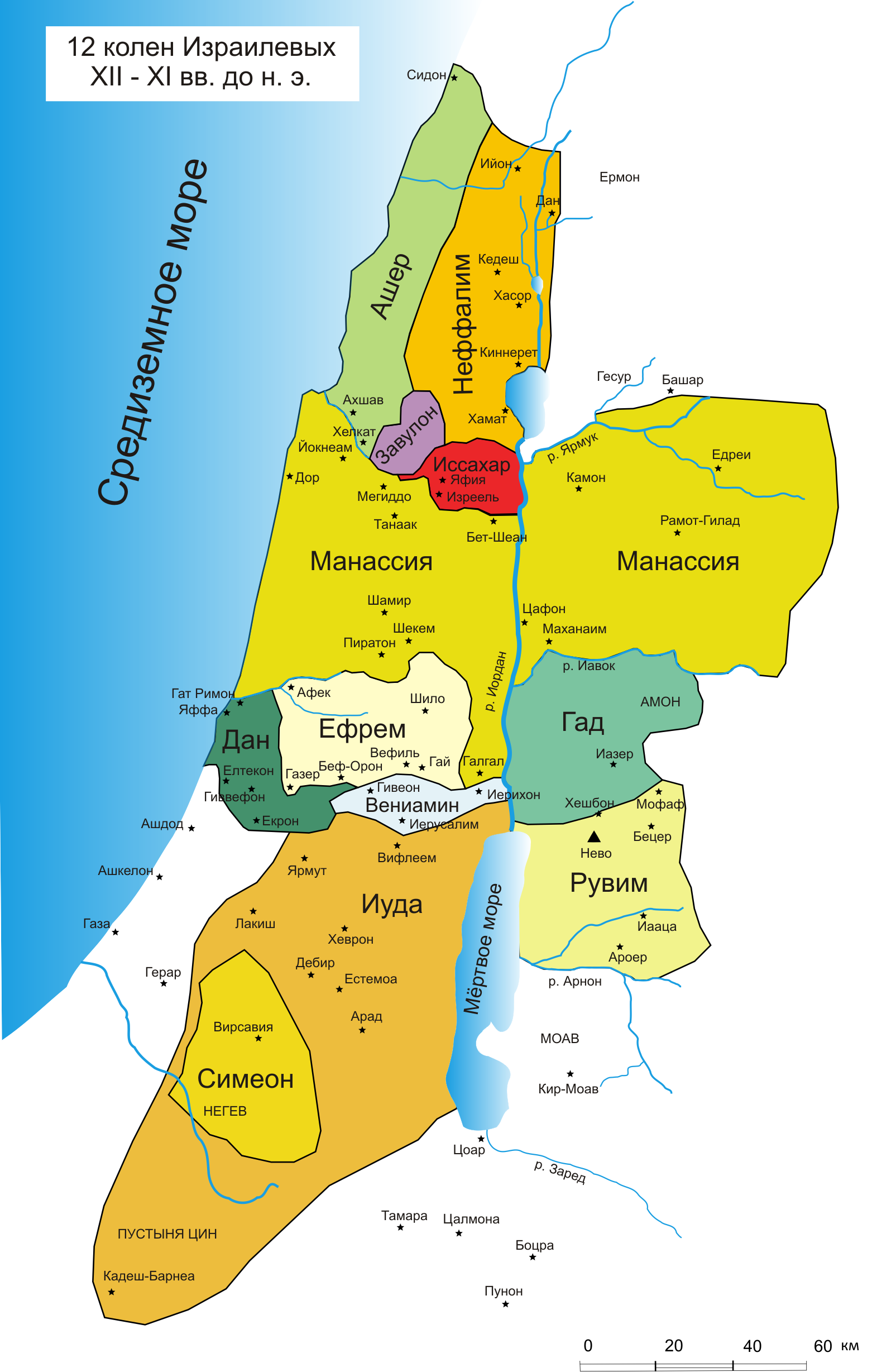 Territories of the 12 tribes of Israel, before the move of Dan to the north. SVG version of File:12 staemme israels.png done with Inkscape captions translation (to Hebrew) by he:משתמש:ברי"א and he:משתמש:דניאל צבי original license